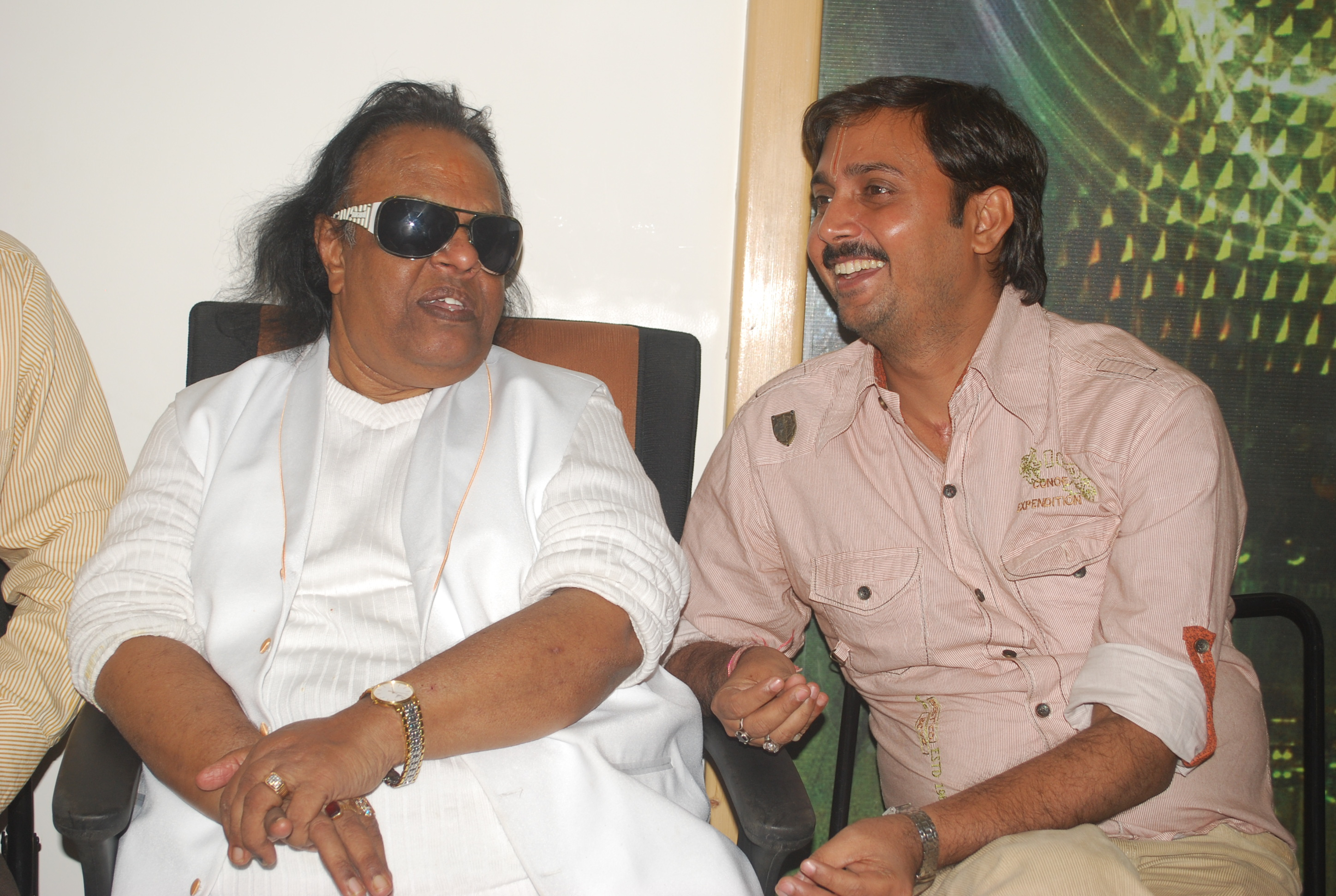 Vishnu Mishra singer